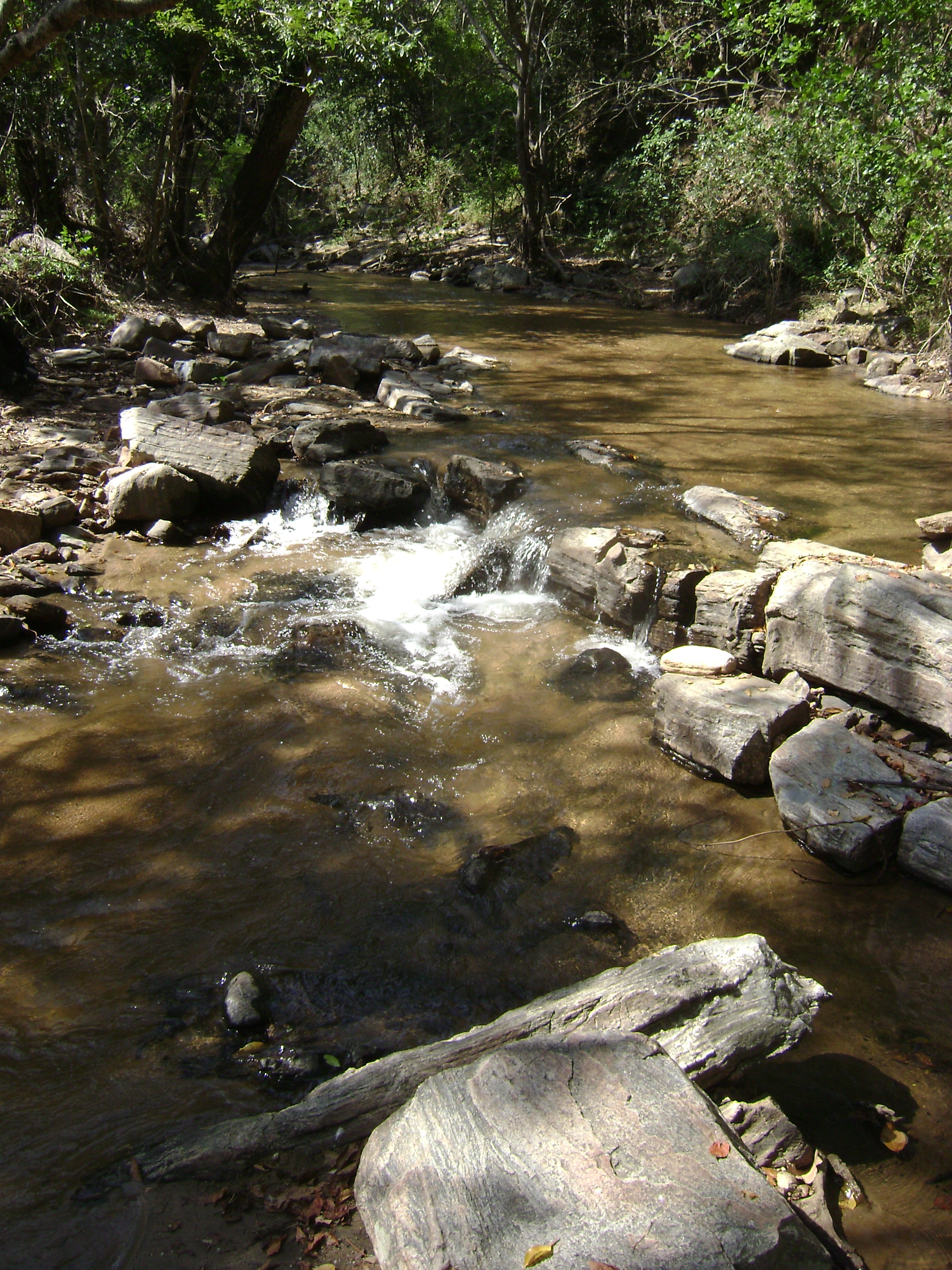 Athioda stream NW of Talinji is the Kerala/Tamil Nadu border